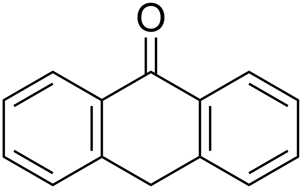 chemical structure of anthrone